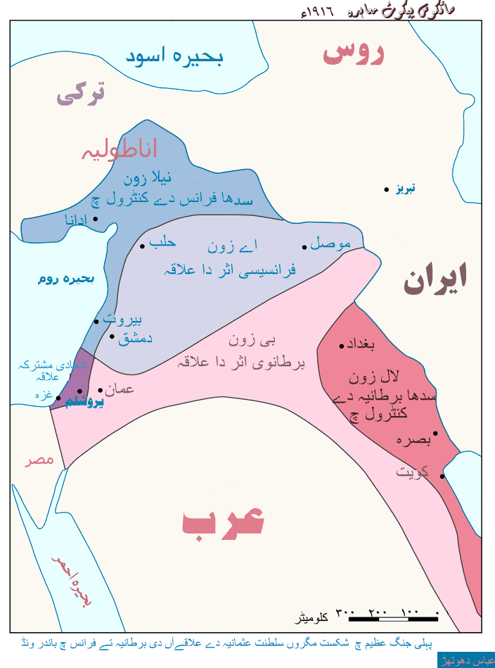 Map of British & French occupation of Arab land in Punjabi.